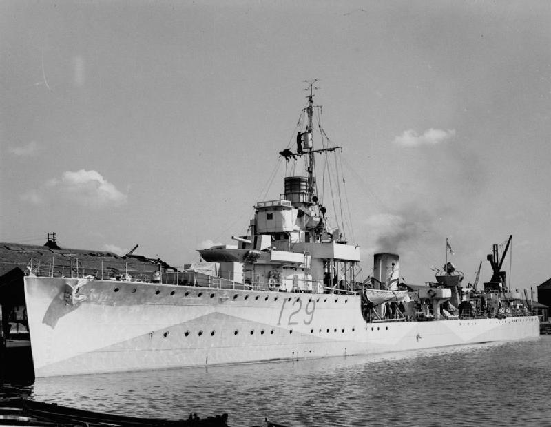 The Royal Navy during the Second World War HMS VANESSA docked at Blackwall.